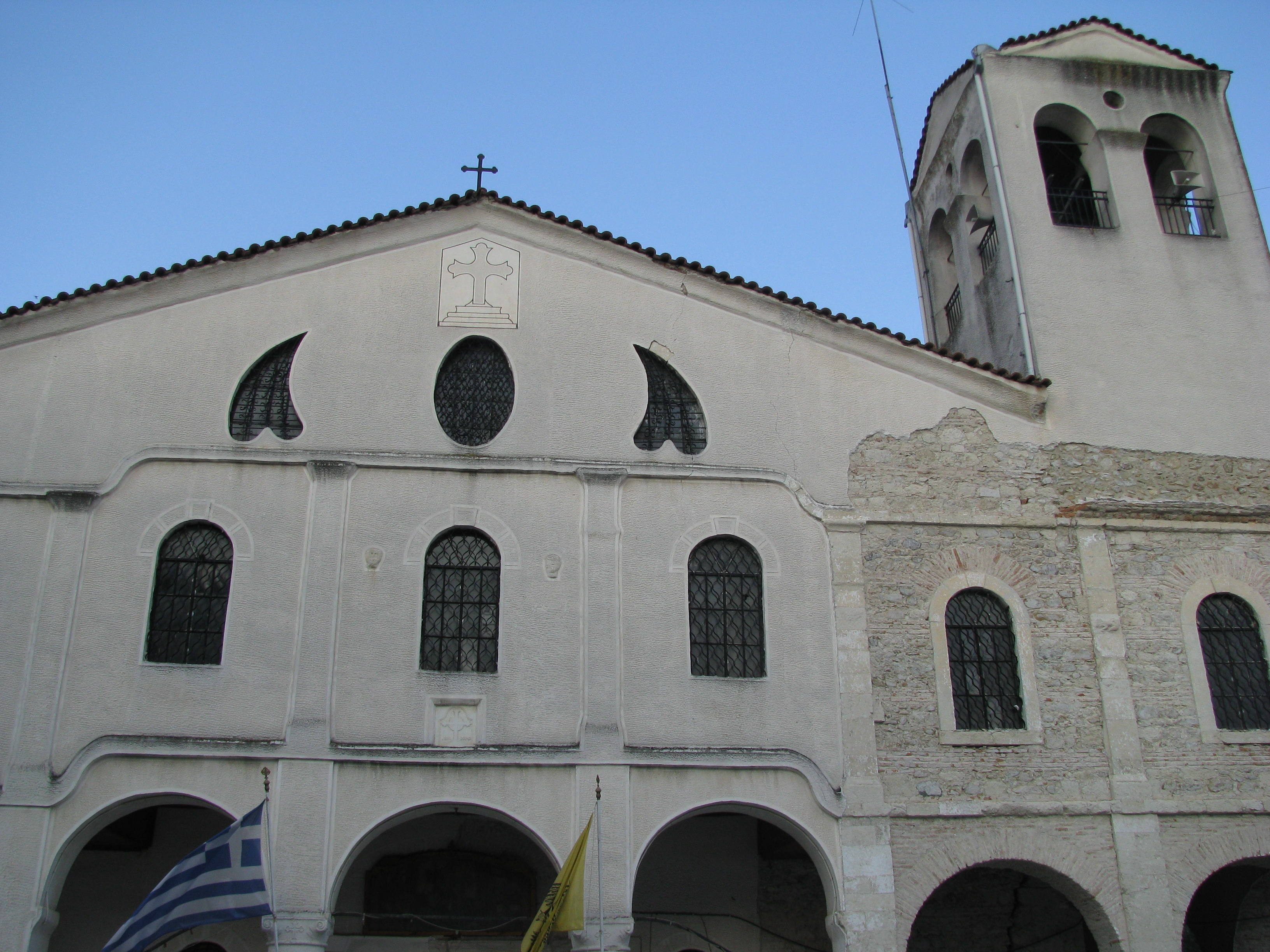 Church of Gumenisa/Giumendje, Aegean Macedonia, Greece